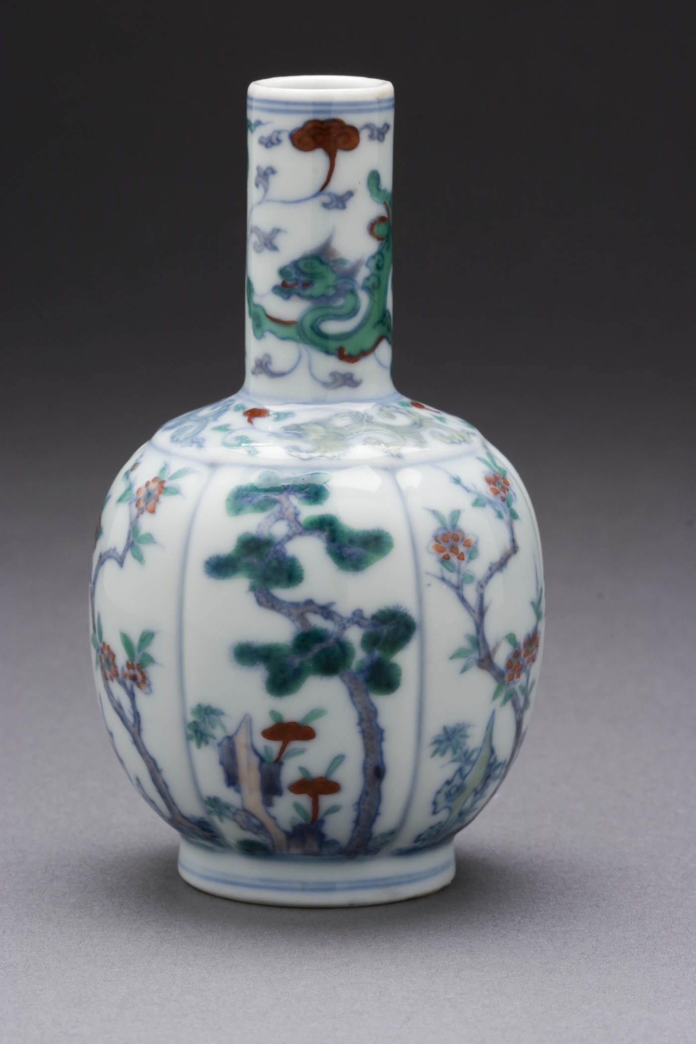 China, Qing dynasty, Yongzheng mark and period, 1723-1735 Furnishings; Accessories Wheel-thrown porcelain with underglaze blue, clear glaze, and overglaze painted enamel decoration (doucai) Gitf of Mrs. James E. Bentley in memory of Jack G. Kuhrts (M.71.65.8) Chinese Art